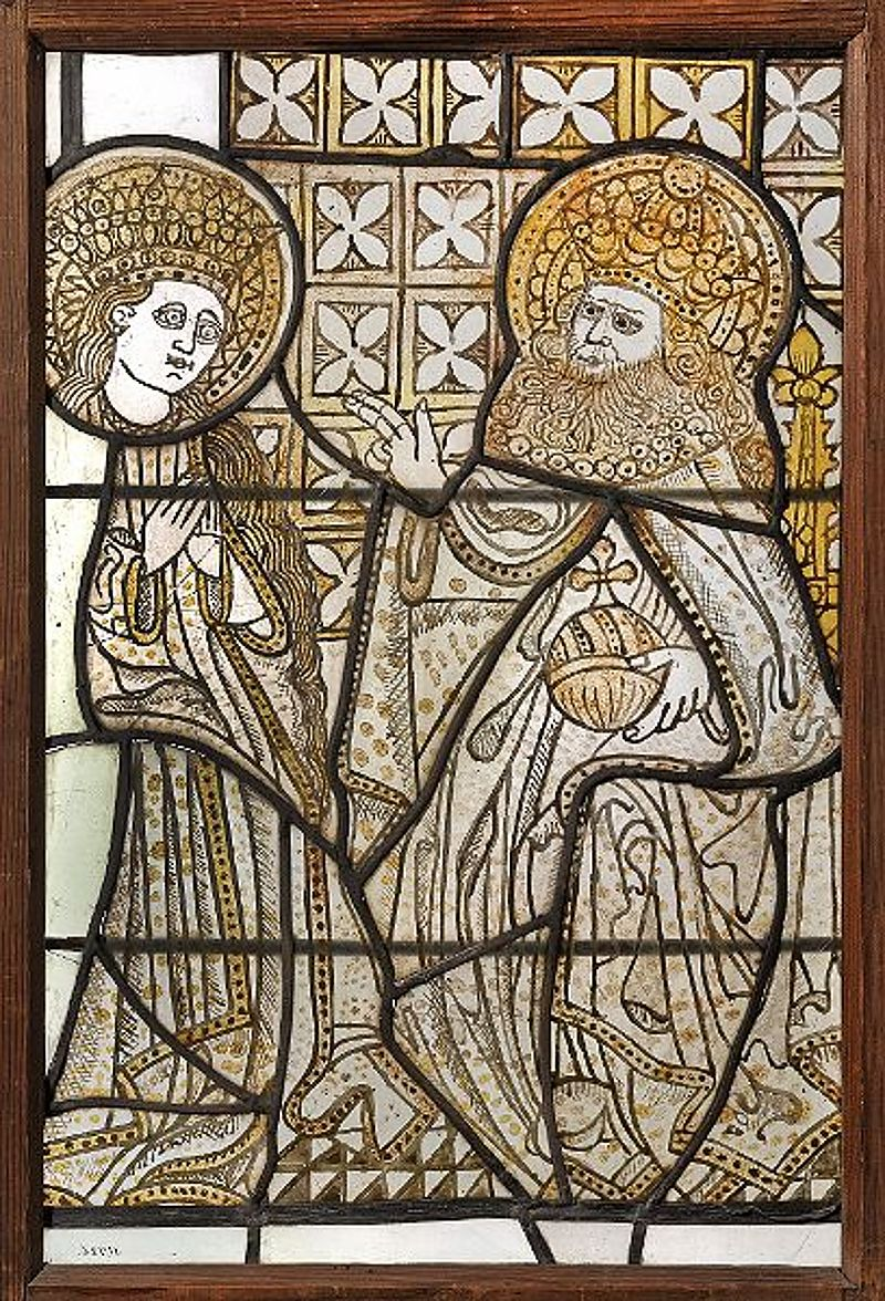 A late medieval stained glass window depicting the coronation of the Virgin, formerly in Torsång Church in Sweden. Now in the Swedish History Museum, Stockholm.